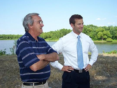 Beardstown mayor Bob Walters and Illinois 18th district congressman Aaron Schock at "Beardstown River"(?) (probably Illinois River or Sangamon River) in 2009.